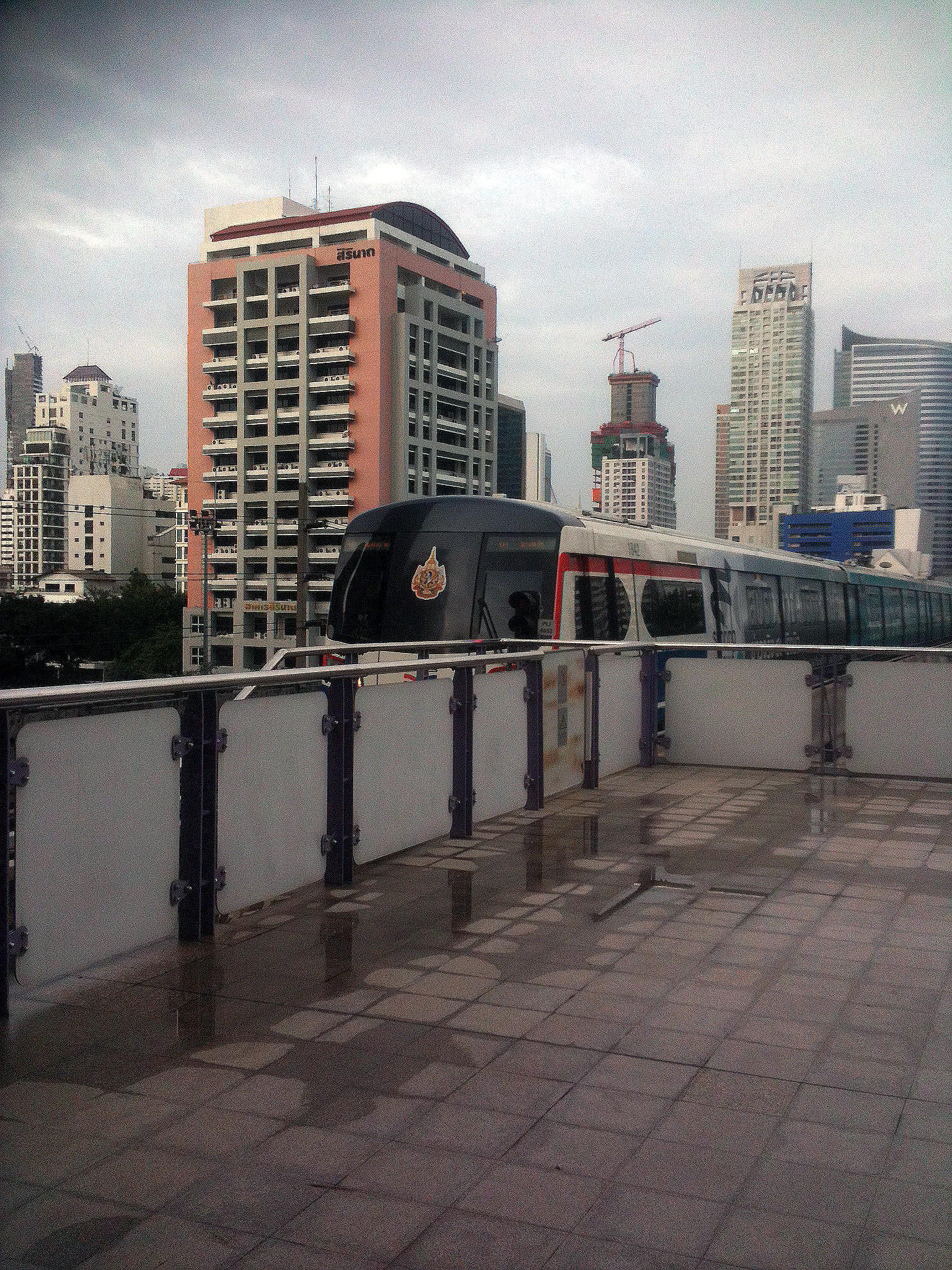 Photo of a train approaching Surasak BTS Station in Bangkok, Thailand.